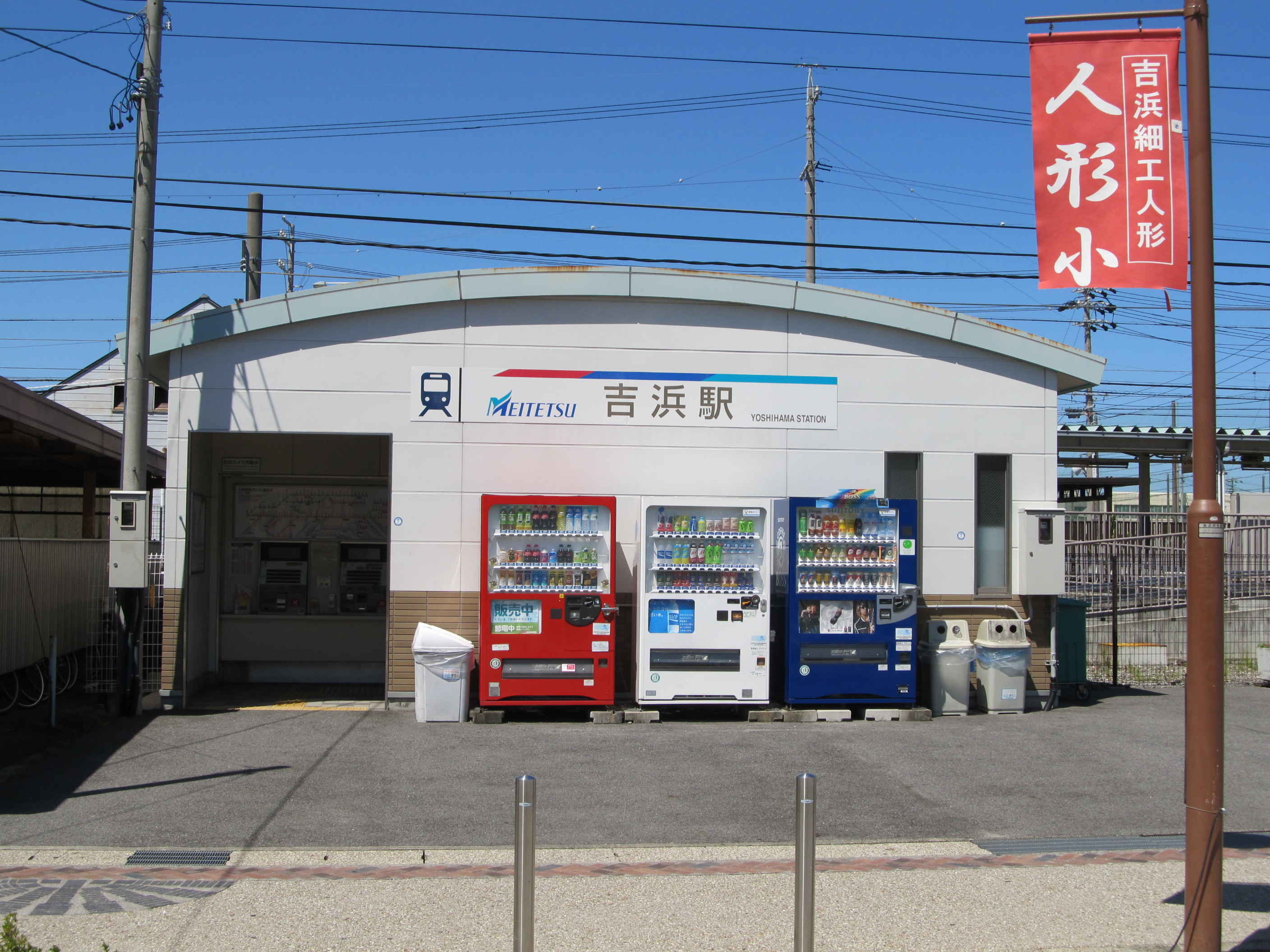 Nagoya Railroad Mikawa Line Yoshihama Station Building